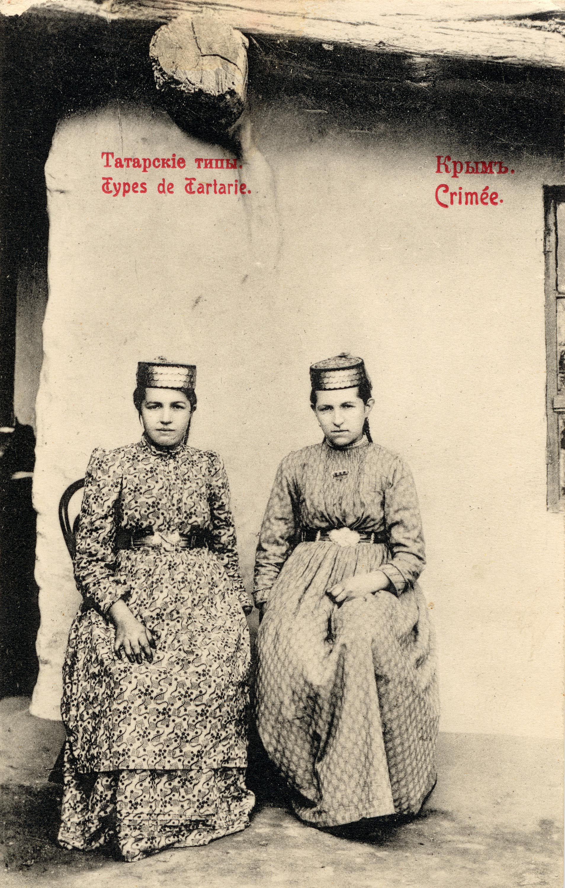 Crimean Tatar women. "Types de Tartarie. Cimée".